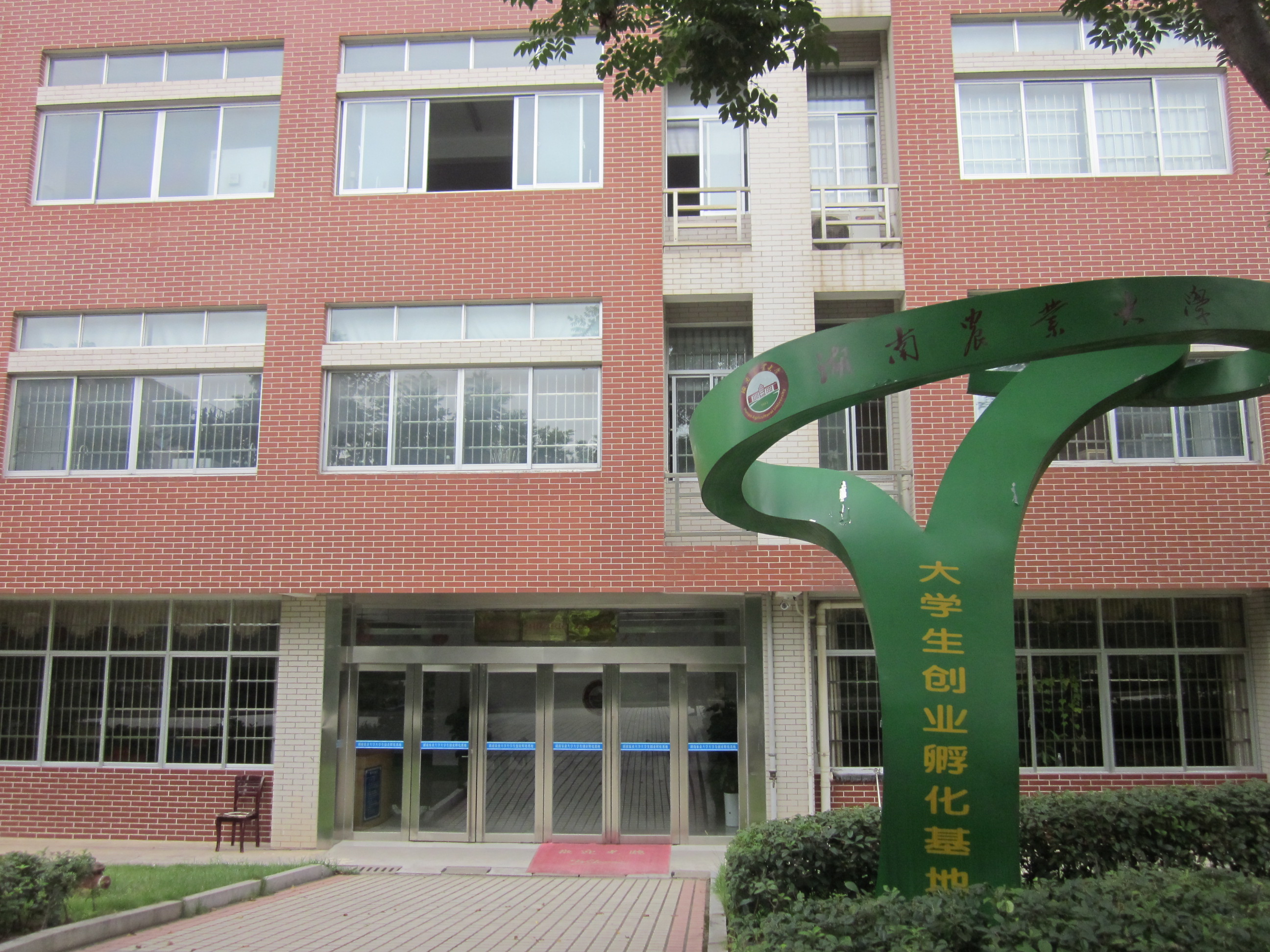 Hunan Agricultural University (Chinese: 湖南农业大学 pinyin: Húnán Nóngyè Dàxué, commonly referred to as HAU or Nongda) is a public research university located in Changsha, Hunan, China.